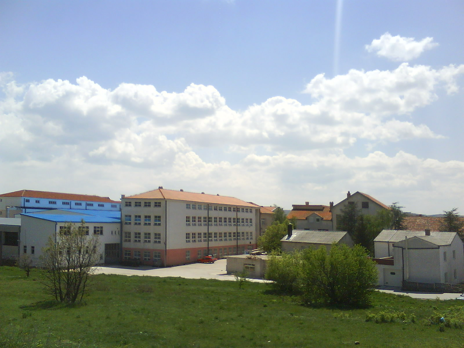 city of Posušje